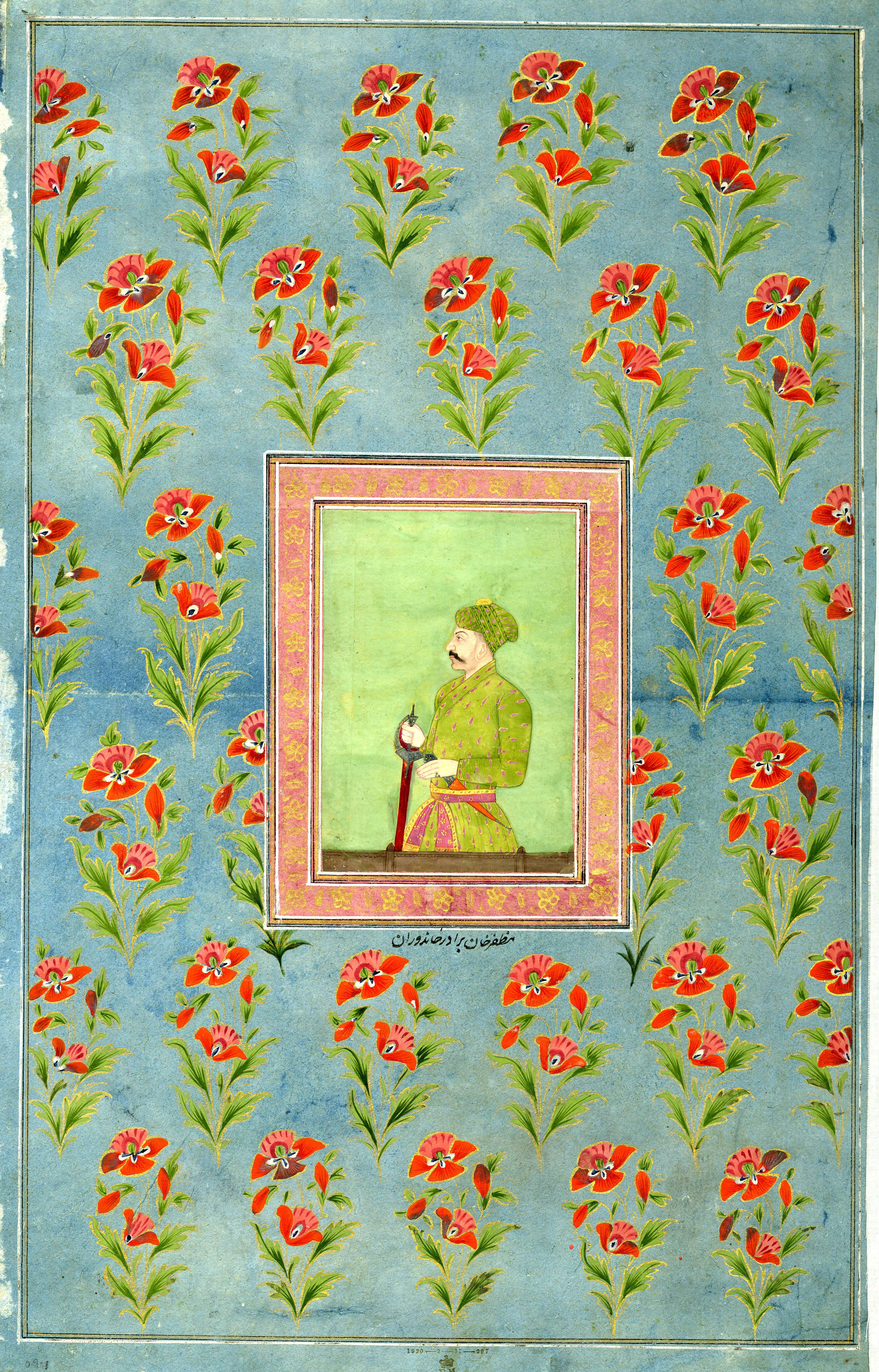 Album leaf (verso). Portrait. Muzaffar Xán. On paper.